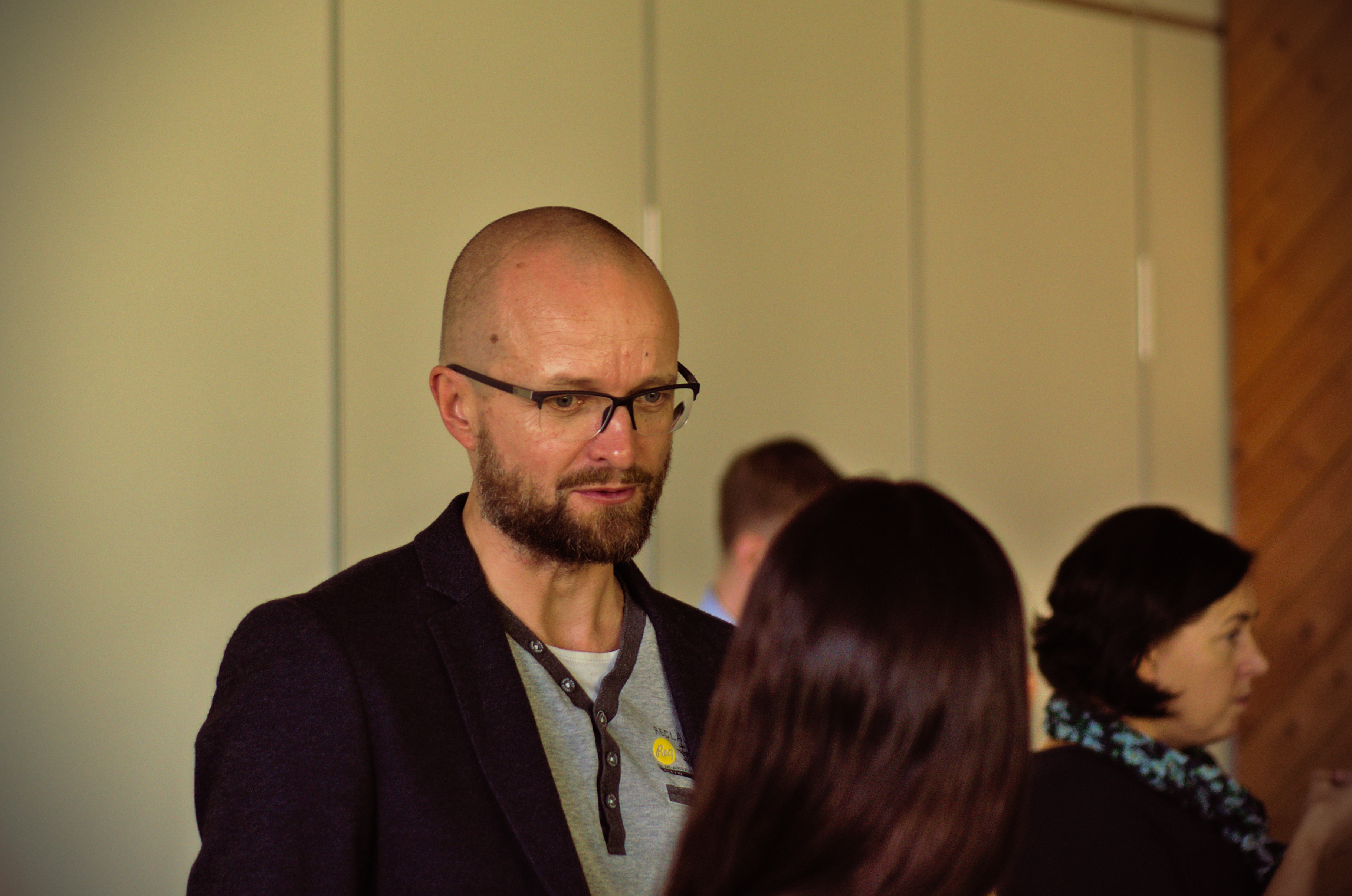 Wikipedia meets NLP workshop. Arvi Tavast